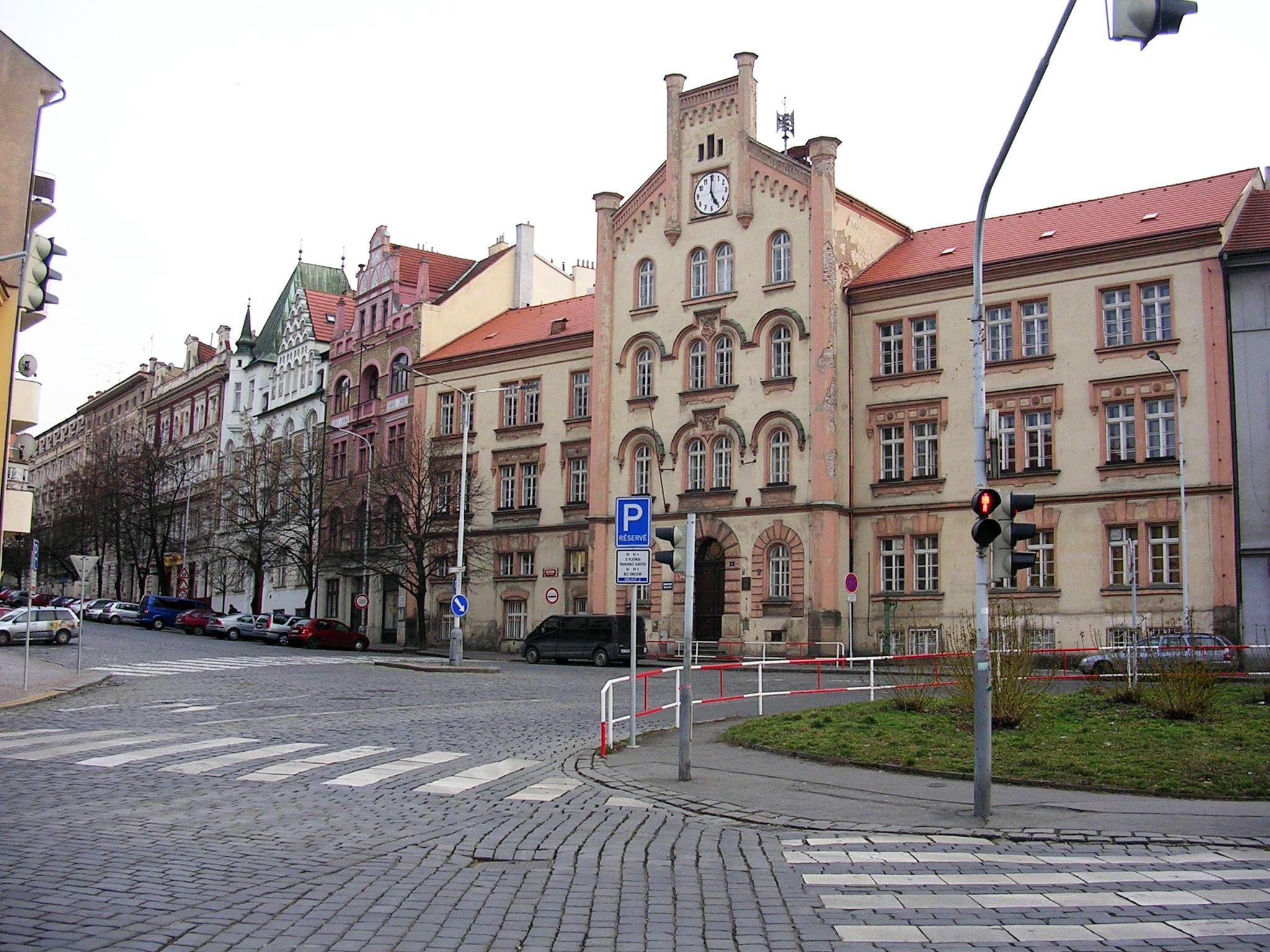 Vyšehrad, Prague, the Czech Republic.